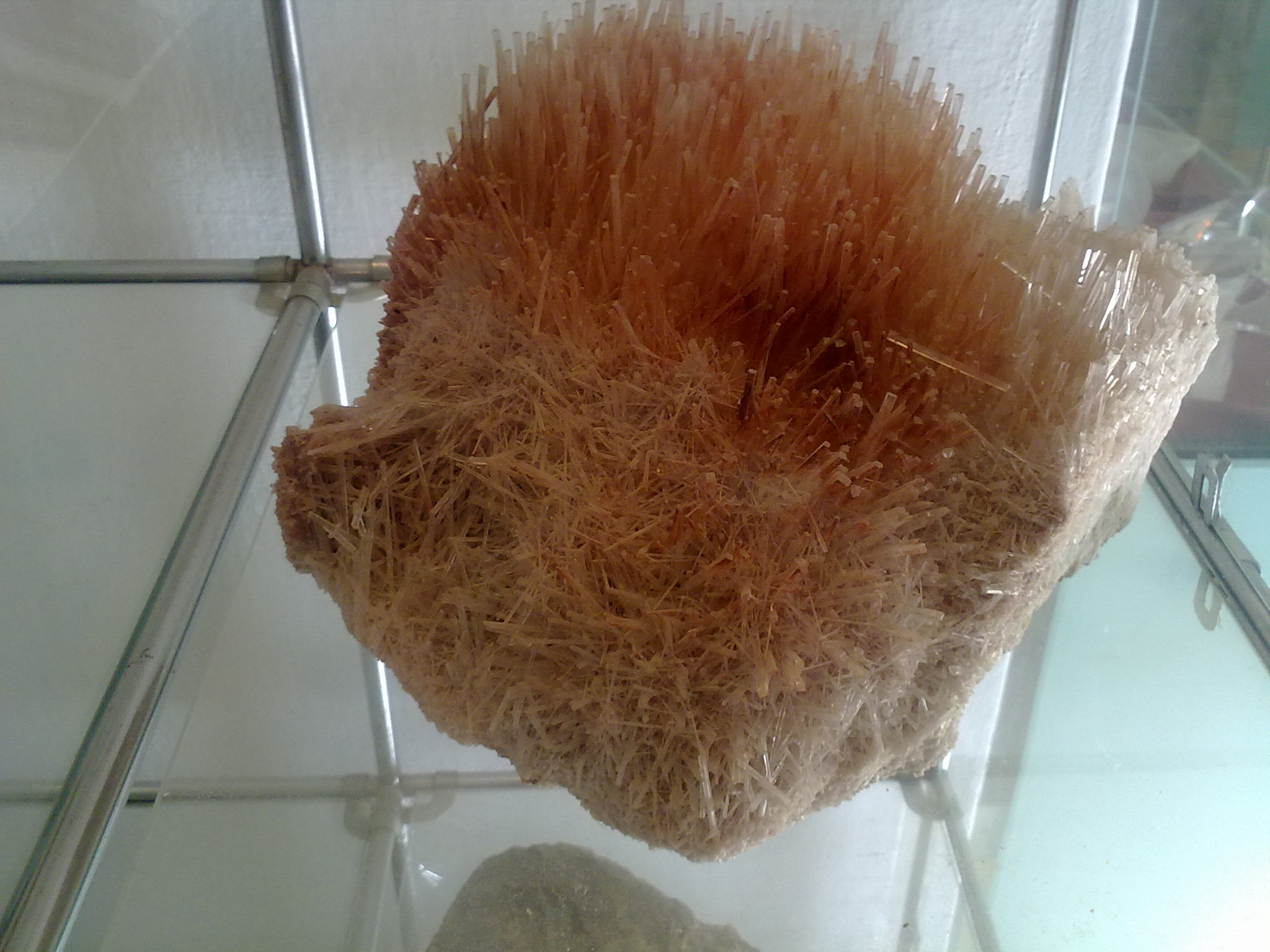 Natrolite (Na2[Al2Si3O10]2H2O.